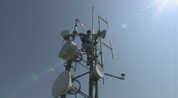 The tower mast where the SK7MQ repeater antenna is positioned. The person in the tower is SM7ZDV.